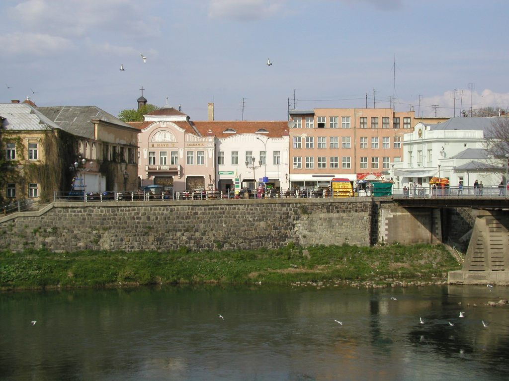 Centre of Uzhhorod (Teatralna square).